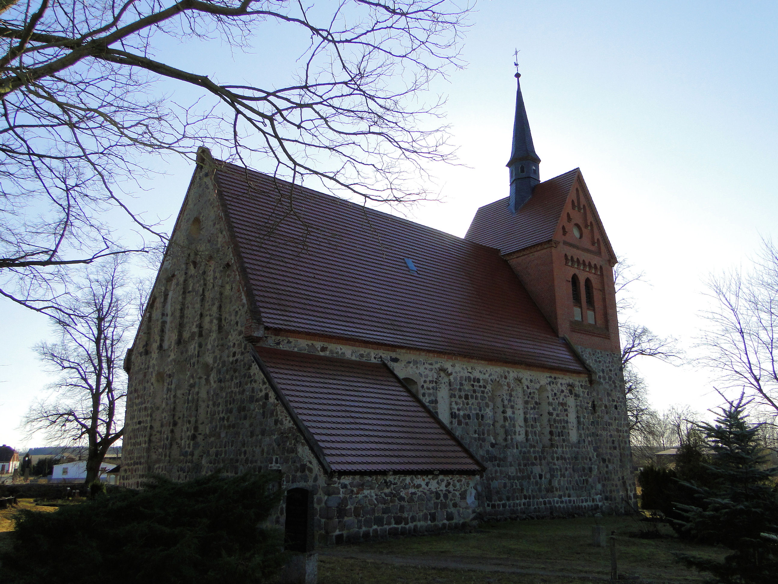 Church in Bredenfelde, district Mecklenburg-Strelitz, Mecklenburg-Vorpommern, Germany